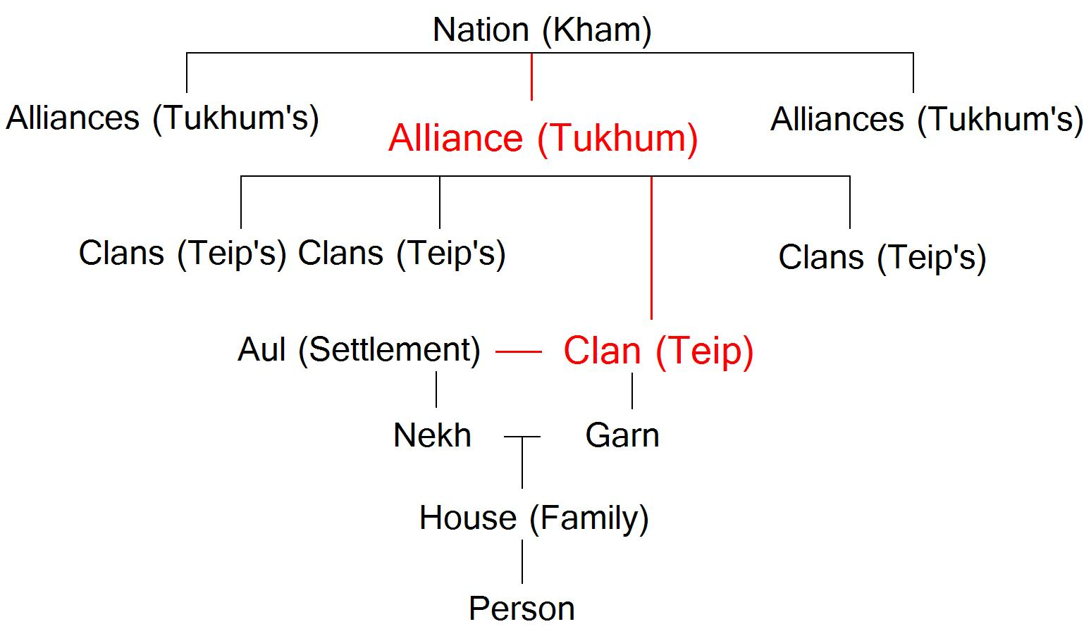 Vainakh social organization scheme